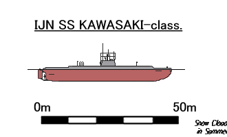 Fig of Japanese KAWASAKI-class submarine HA-6.